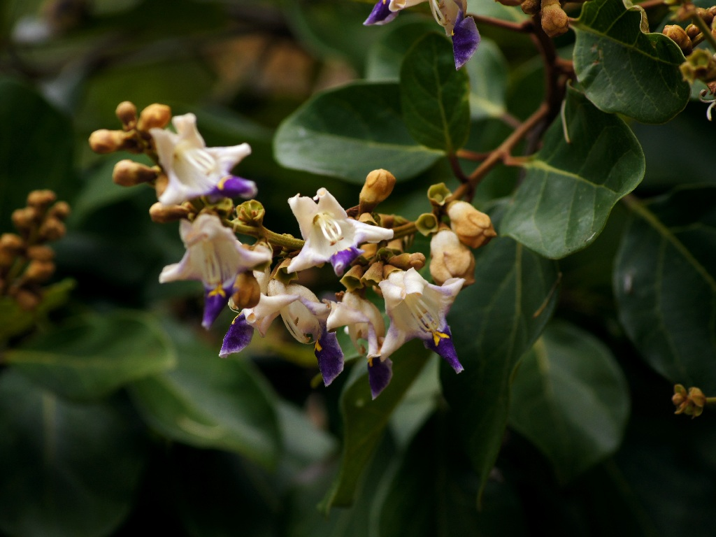 Gmelina fasciculiflora, Northern white beech. - Australian rainforest tree Location: Mt. Coot-tha Botanic Gardens, Brisbane, Australia